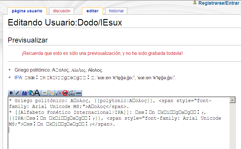 Unicode rendering in Internet Explorer 6.0 - note no UI elements of the browser are shown